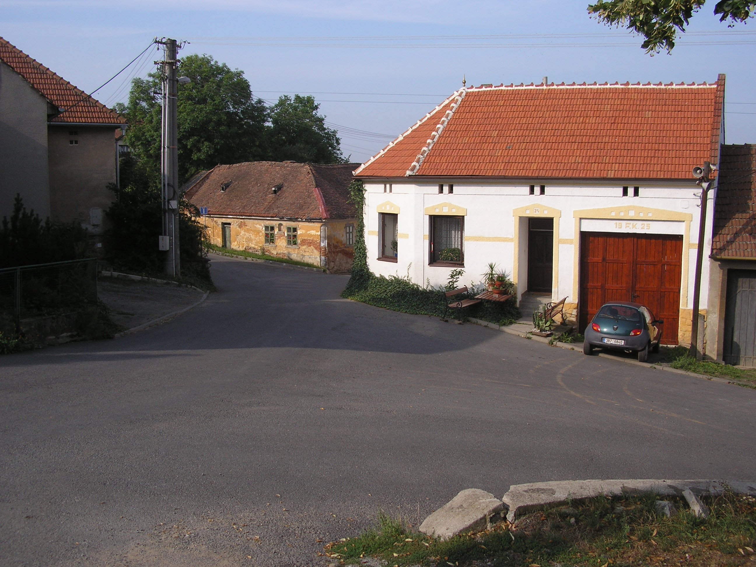 Chrudichromy